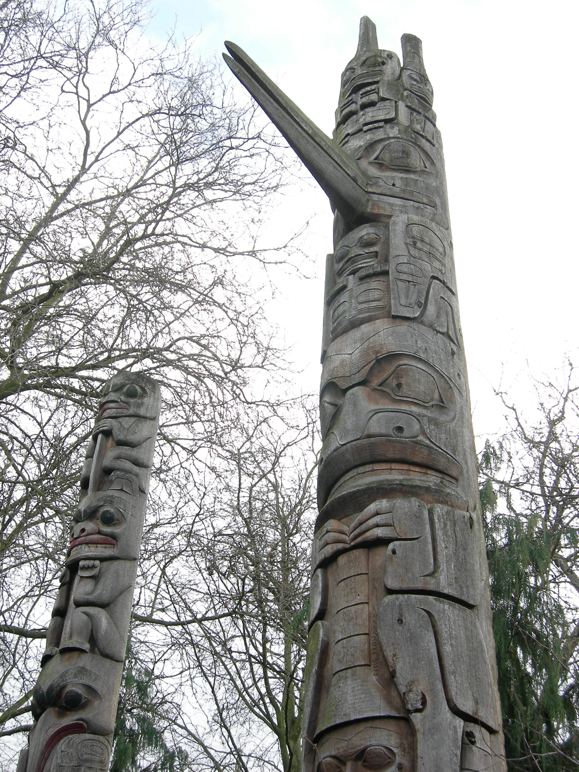 Totem poles outside Burke Museum of Natural History and Culture, University of Washington, Seattle, Washington. These are 20th century replicas of 19th century totem poles. The pole on the left is a Tsimshian memorial pole (original carved circa 1880, replica carved 1970 by Bill Holm). The pole on the right is a Haida house front pole (original carved circa 1870, replica carved 1969 by Bill Holm).